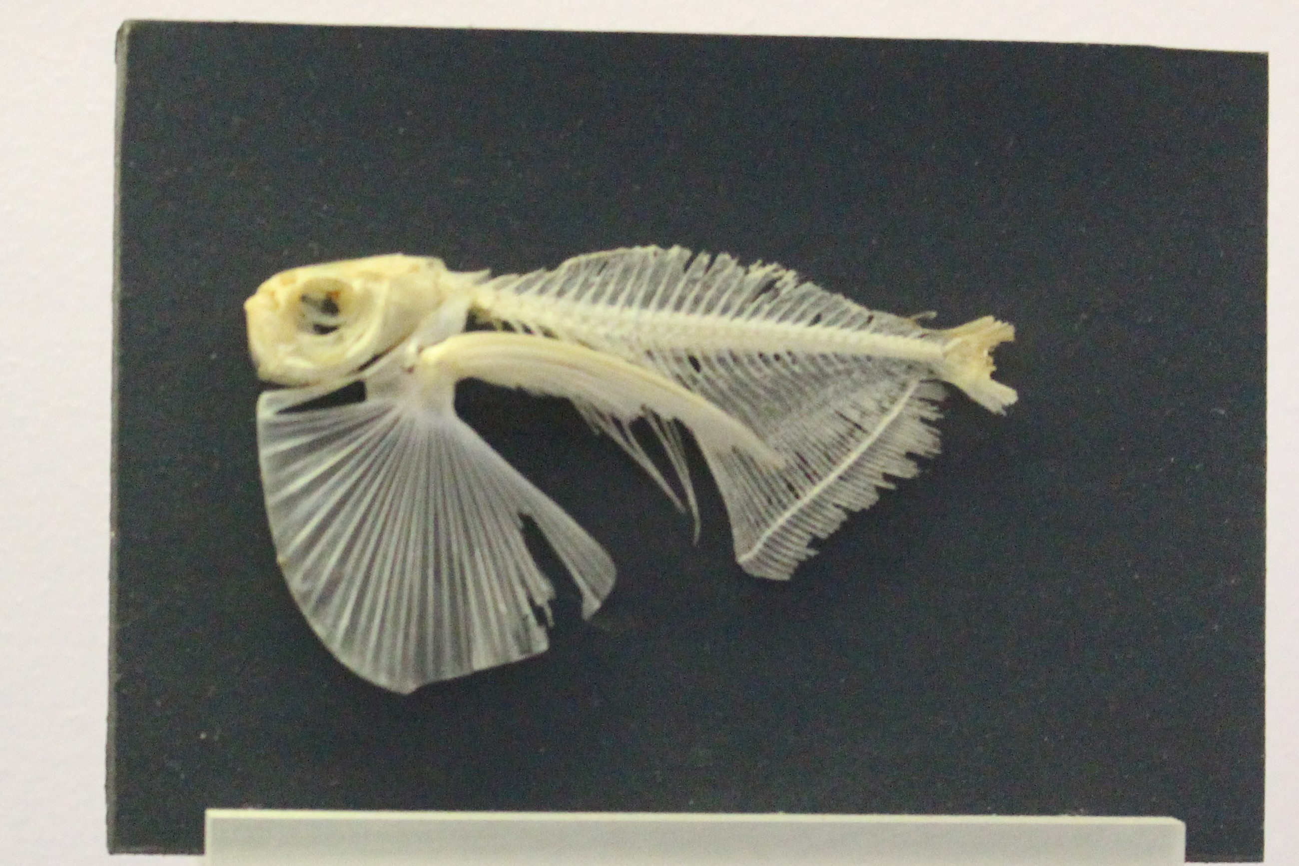 Spotfin hatchetfish (Thoracocharax stellatus) skeleton at the Natural History Museum in London, England.